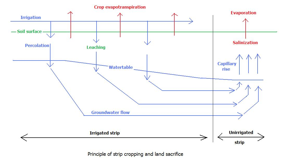 Principle of strip-cropping and sacrifice of the permanently unirrigated strips to where the soil salinization is directed. Applied at the foot of the Garmsar alluvial fan, Iran